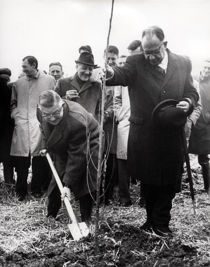 The deputy minister for Culture, Recreation and Social Welfare − Hein van de Poel − by planting a three in a new recreational area.